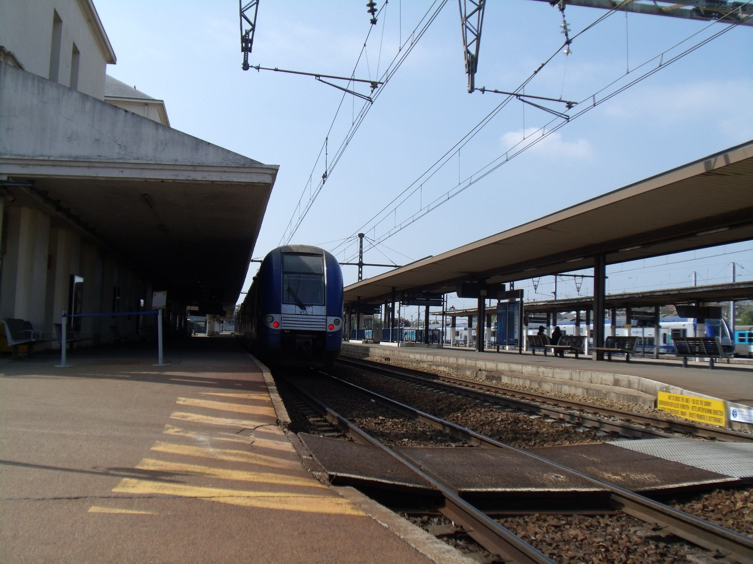 TER Centre in Chartres station